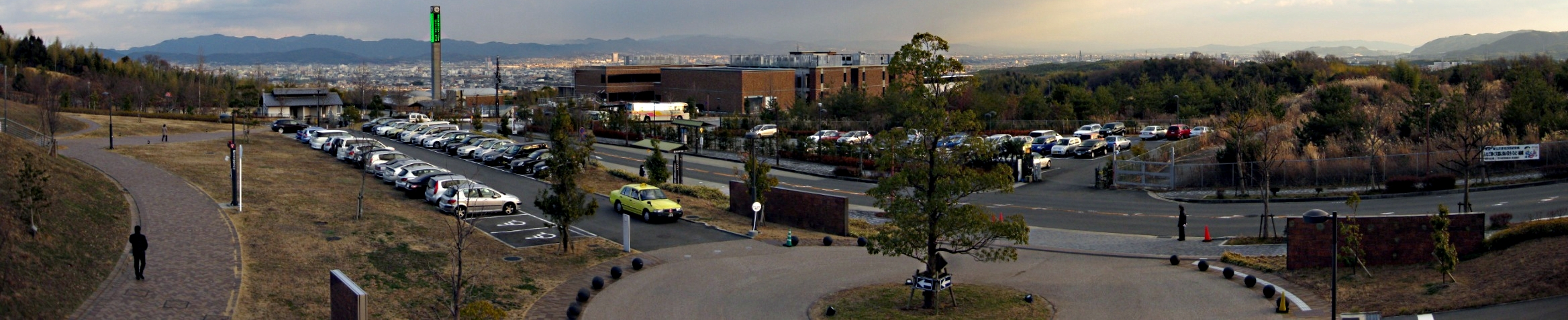 View of Kyoto from Kyoto University Katura Campaus Cluster C.